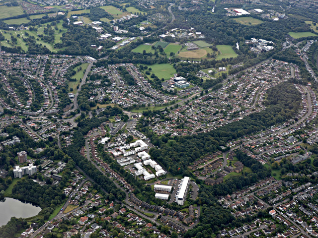 Canniesburn from the air